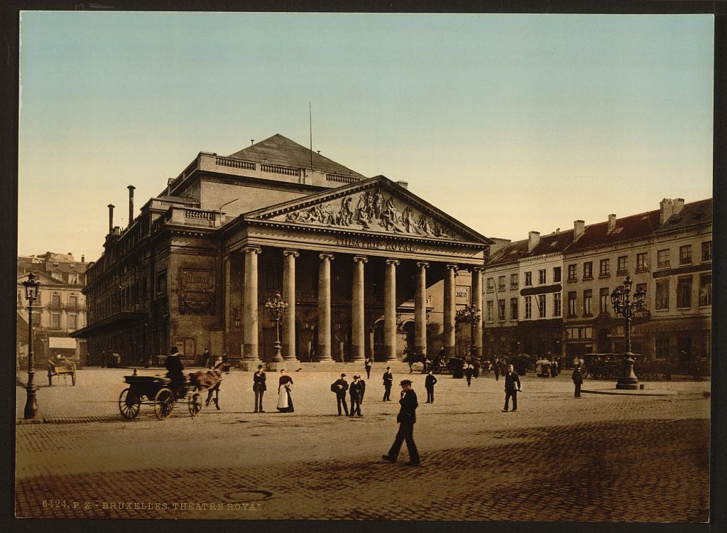 The Place de la Monnaie or Muntplein, Brussels, Belgium (ca. 1890-1900)